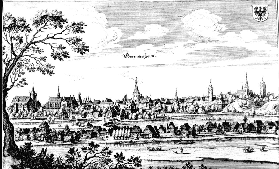 Germersheim by Matthäus Merian